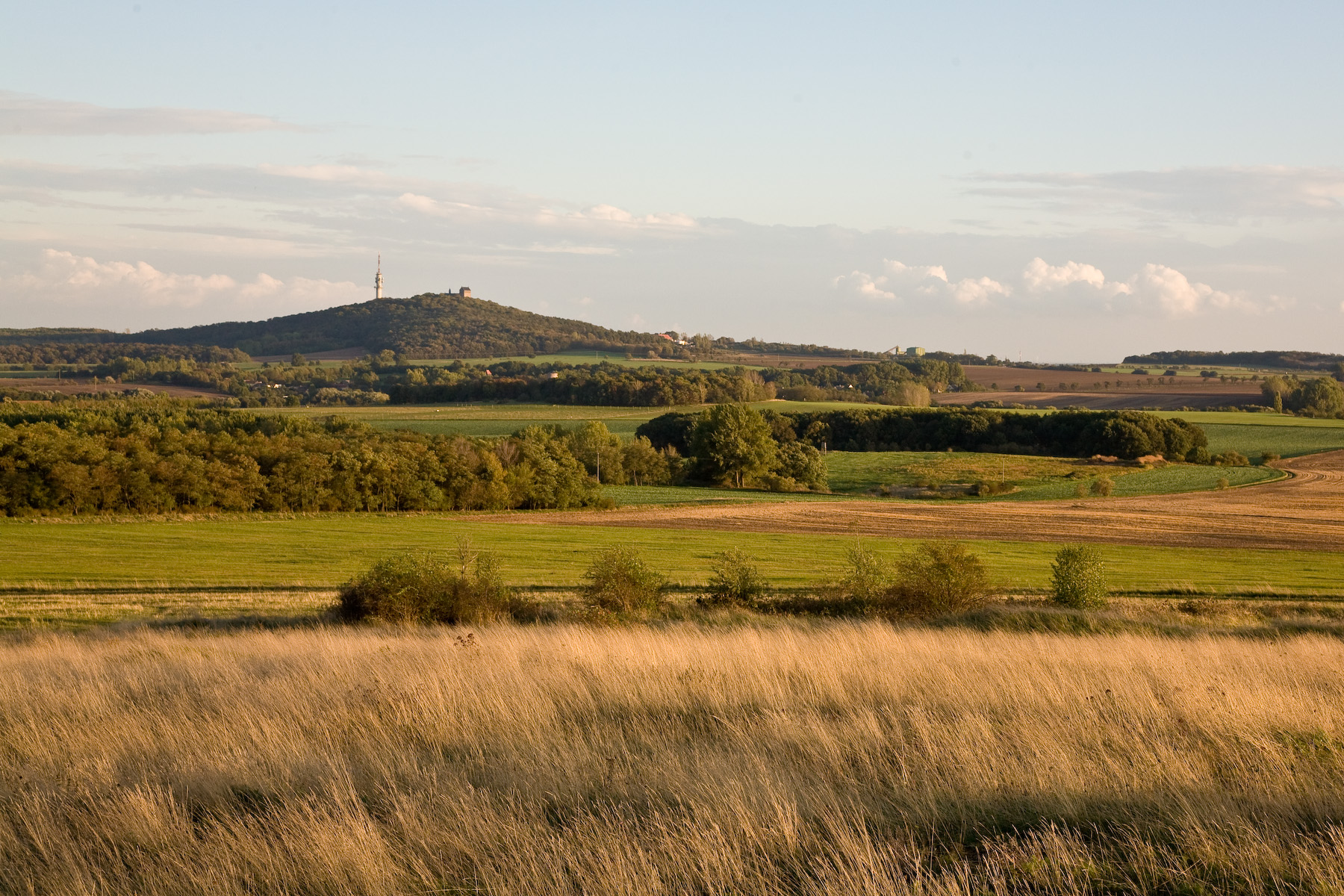 Petersberg near Halle (Saale), Germany, view from Löbejün.